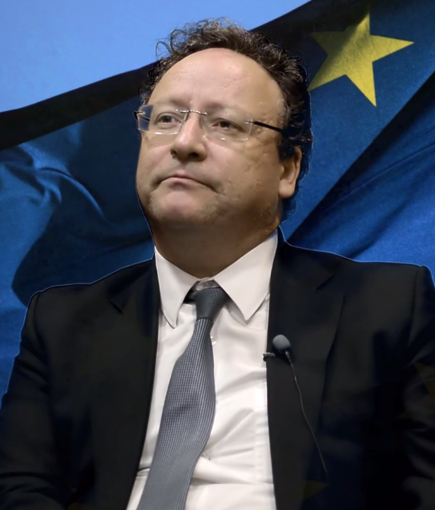 Francisco Assis (b. 1965), Portuguese Socialist politician and Member of the European Parliament.